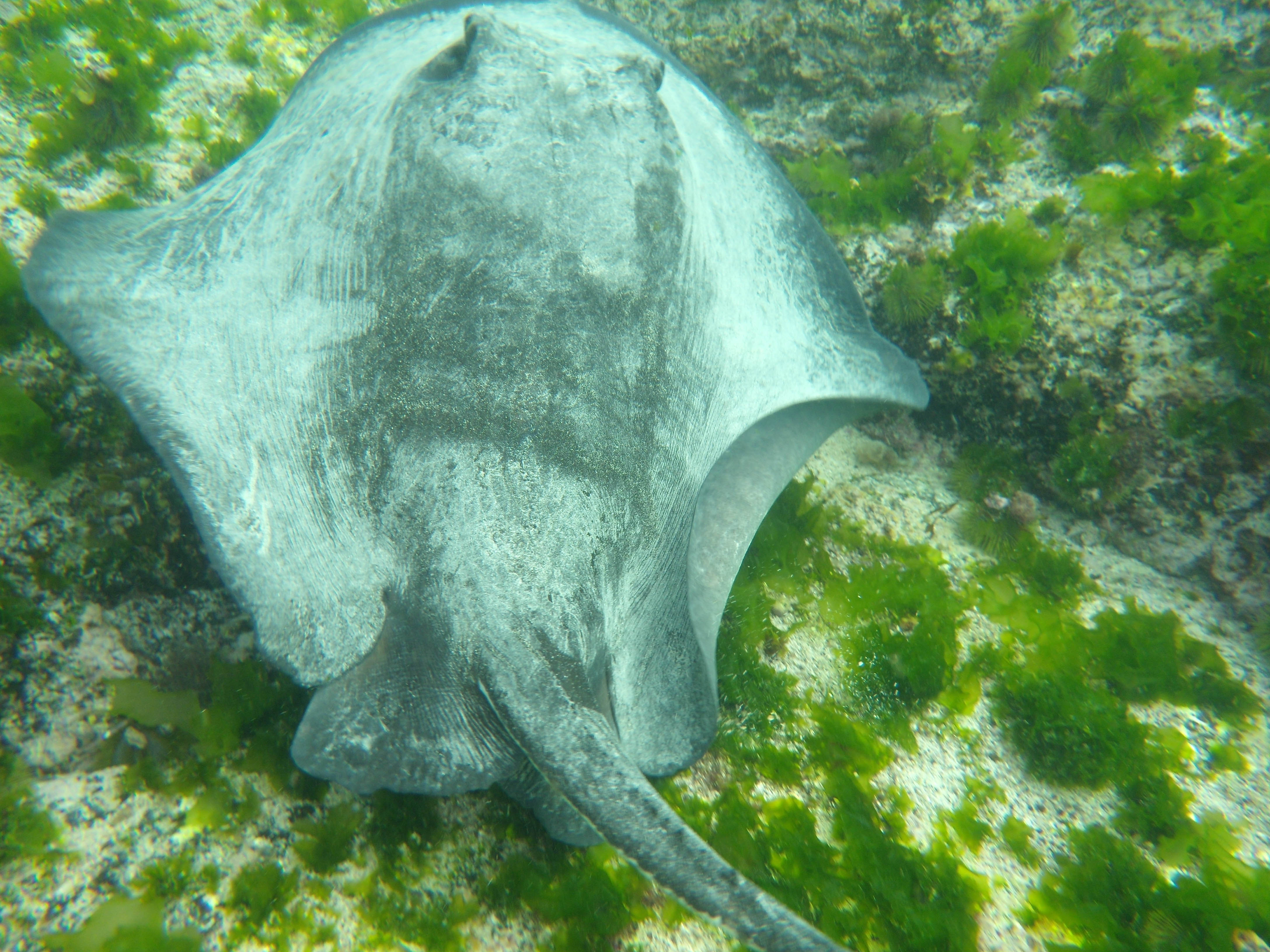 Diamond stingray (Dasyatis dipterura) in the Galapagos.